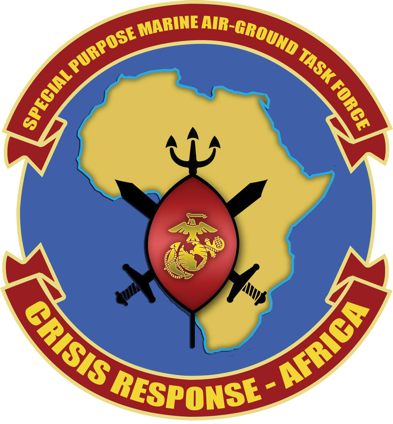 Official logo for the U.S. Marine Corps' SP-MAGTF-CR-AF